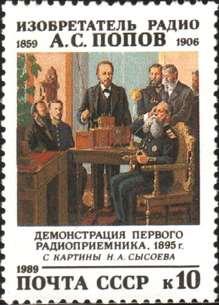 Soviet Union stamp: "130th anniversary of the birth of Alexander Popov (1859-1906)" (1989, October 5. Making Nikitina, TSFA number 6117). Demonstration A.S.Popov, he invented the world's first radio. Admiral SO Makarov and members of the Russian Physical and Chemical Society 25.04 (7.05) 1895 (painting by N. Sysoev, 1986, oil on canvas, CMS). Source: Catalogue of postage stamps of the USSR in 1989, ITC "Mark", 199